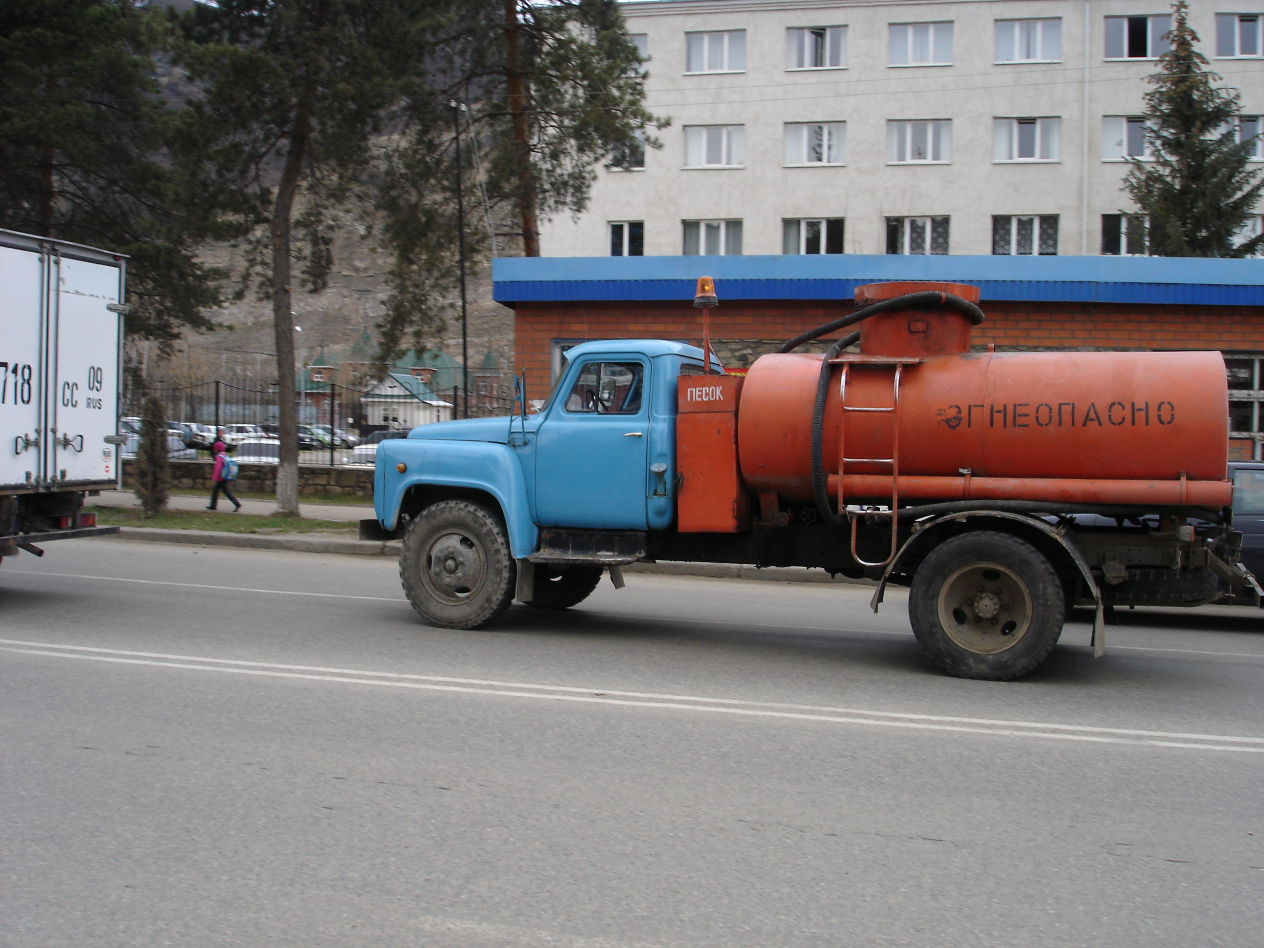 GAZ-53 fuel tank truck Karachayevsk, Karachay-Cherkessia